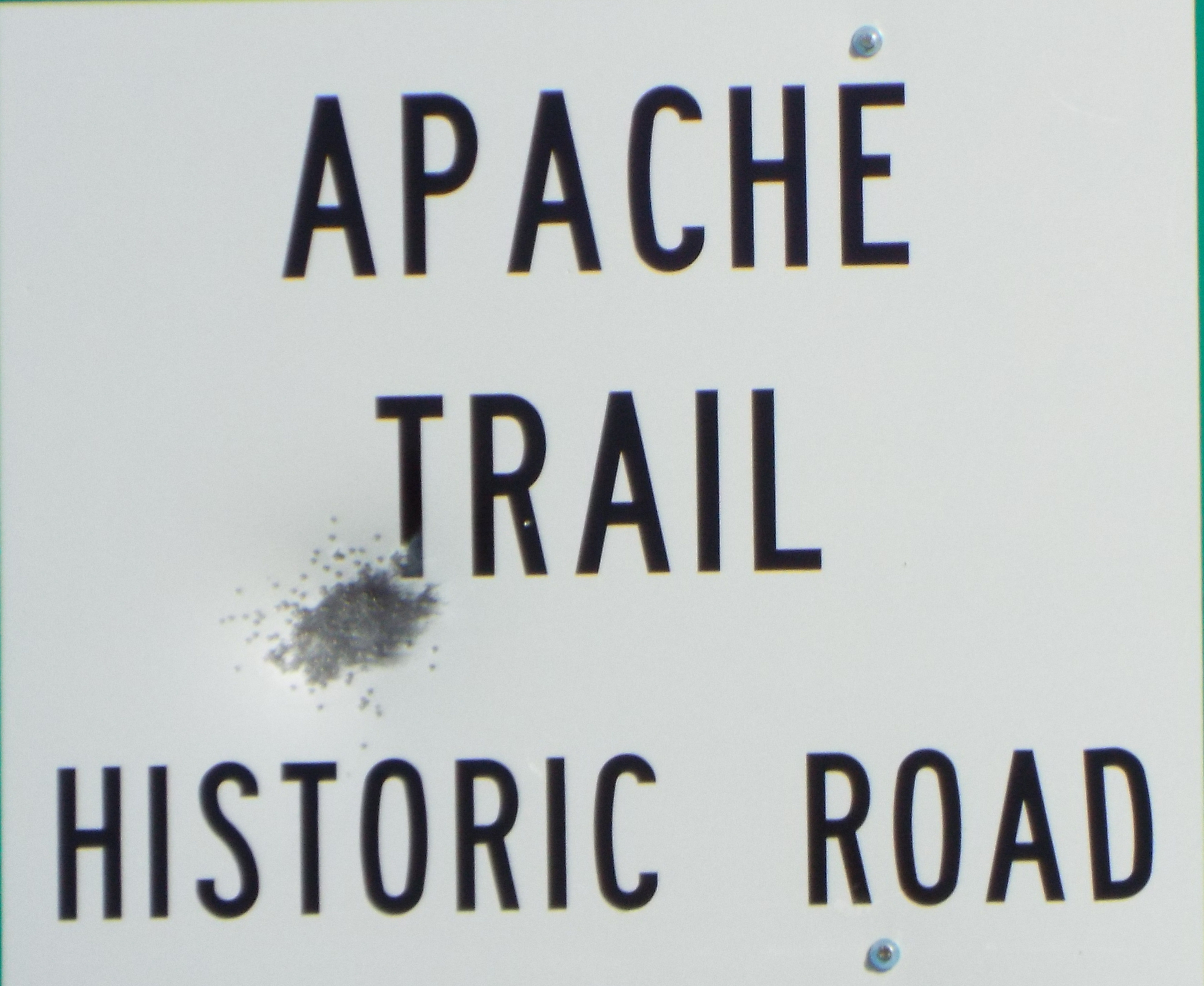 Historic Apache Trail sign on Highway 88.